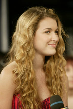 The cast of the 2007 film Bratz, at MuchMusic for a MuchOnDemand episode.